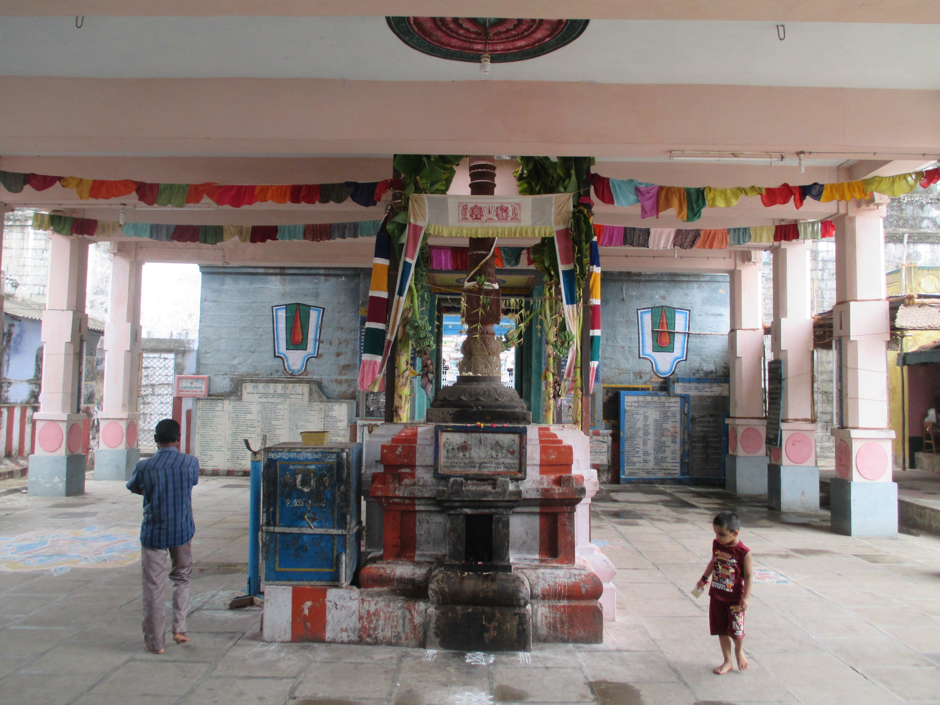 Neelemegha Perumal Temple